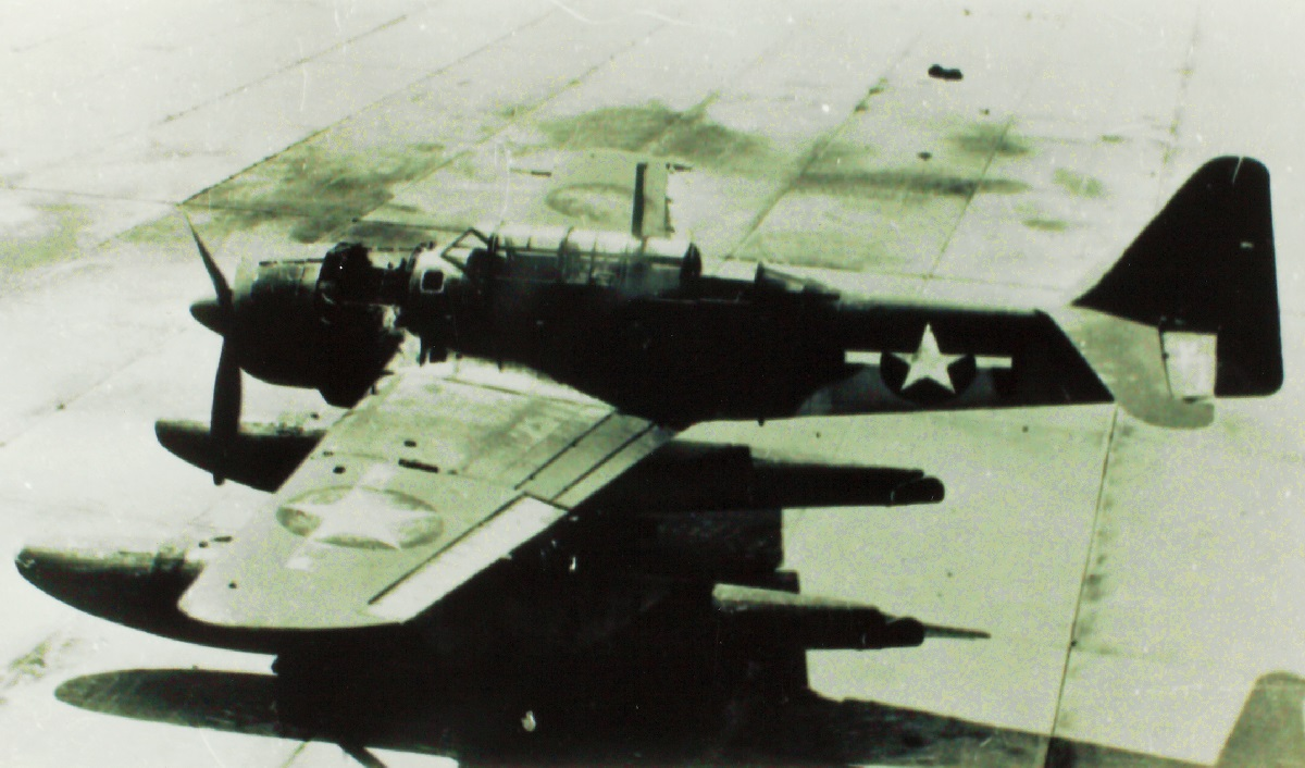 Aichi E16A "Paul" seaplane of the Imperial Japanese Navy following capture by American forces and marking with United States insignia.